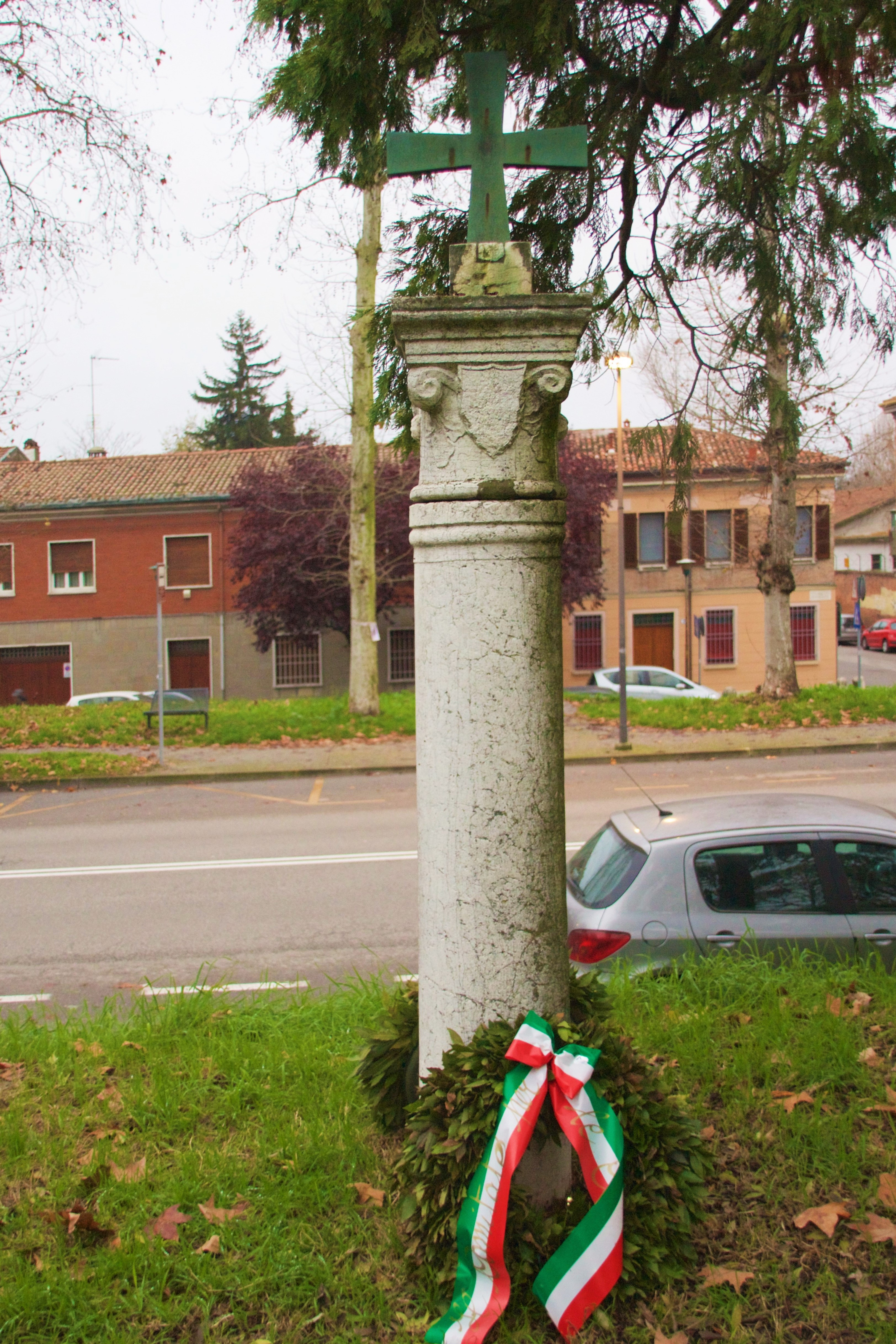 City walls, Ferrara, Italy